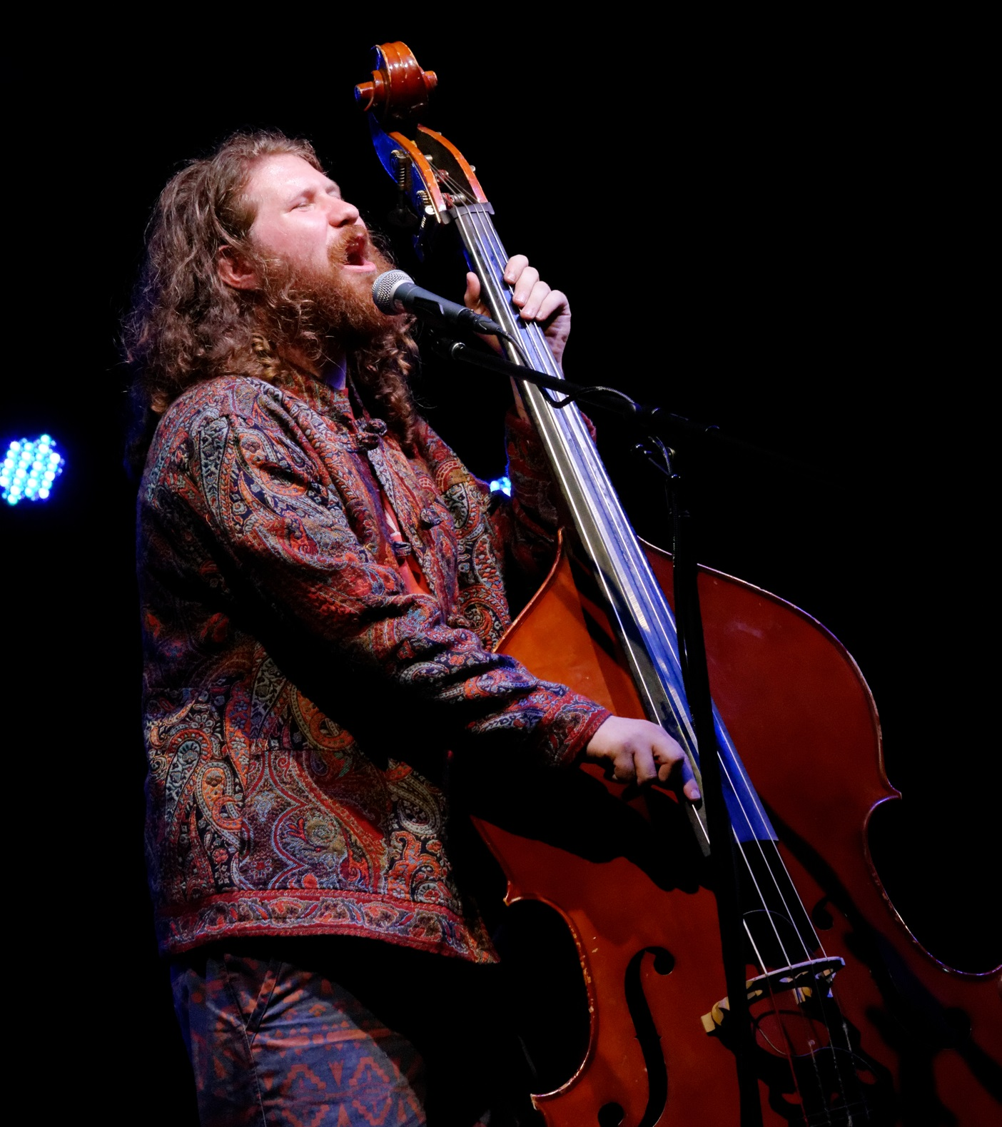 Casey Abrams at the Orange County Great Park